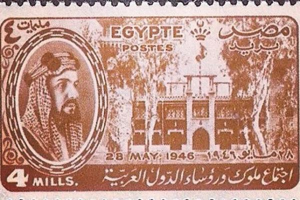 Arab League of states first conference - Anchas Palace - Egypt 28-5-1946 King Saud